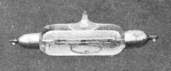 An early electrolytic capacitor from 1914. It consists of two sheets of foil about 3 cm square separated by a fabric sheet, immersed in an electrolyte solution, sealed inside a glass tube, with electrodes attached to the foils at either end. It had a capacitance on the order of 2 microfarads. It was used as a decoupling condenser in a crystal radio.